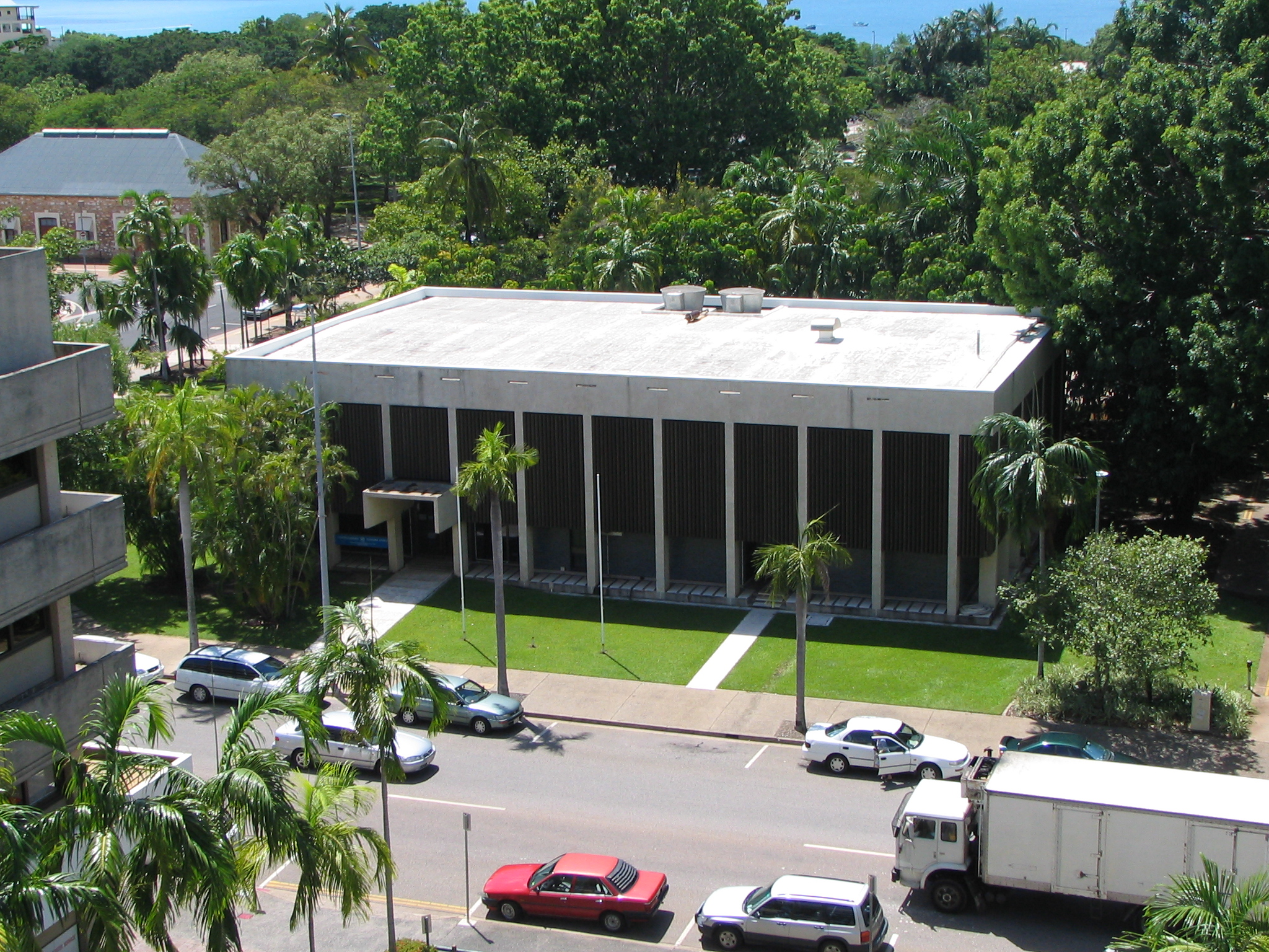 The Reserve Bank has long gone and the United Nations had taken over the building due to operations in East Timor. This photo was taken from the top of the West Lane Carpark.